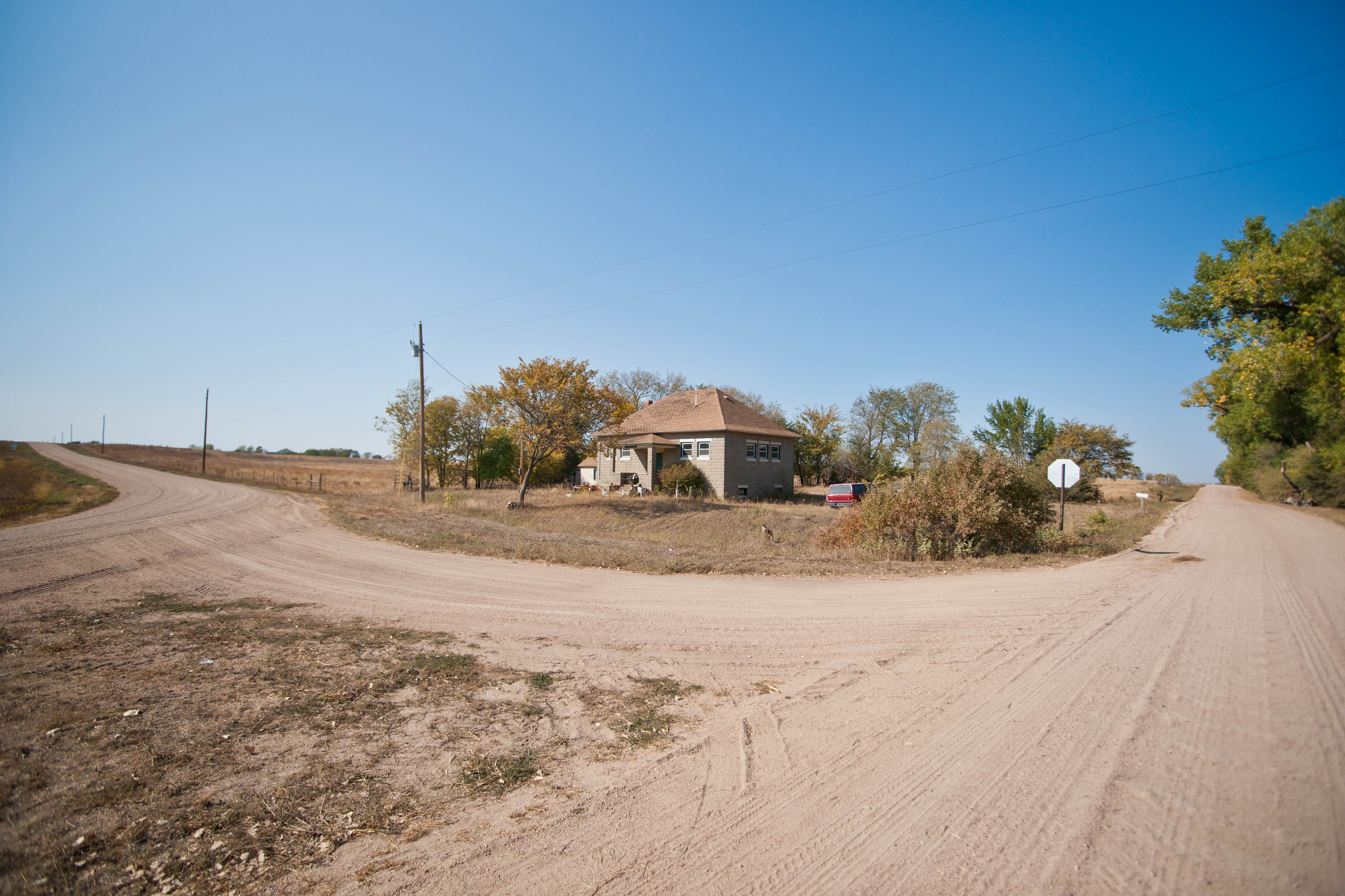 From